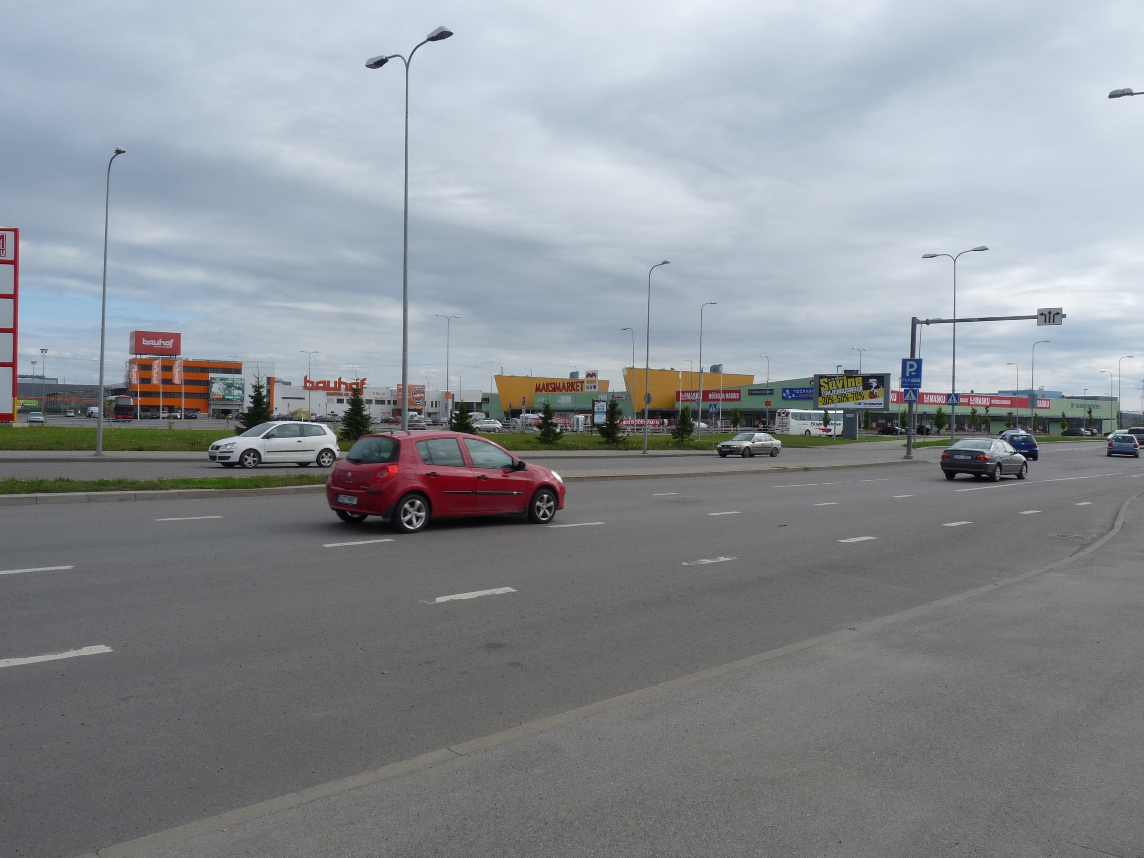 Build supermarkets in Lasnamäe